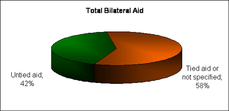 Distributions of tied and untied aid in 2006, using statistical data from OECD